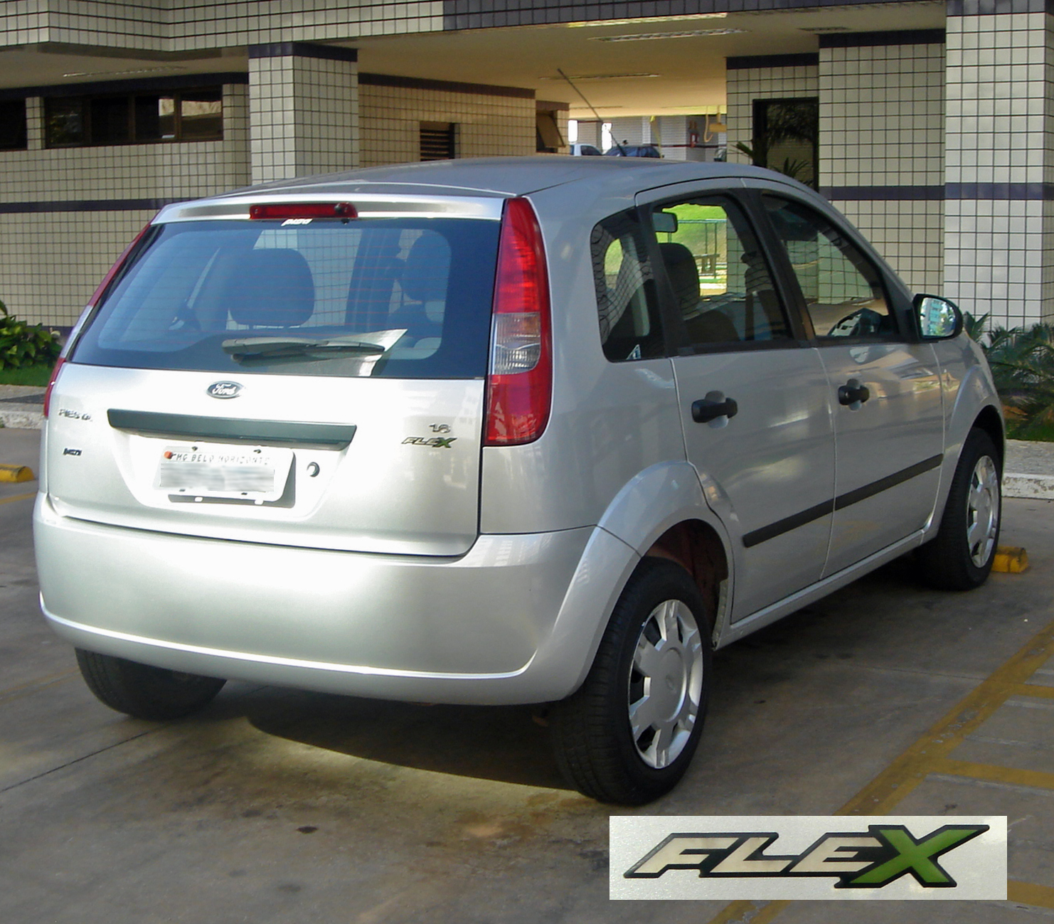 Brazilian flex-fuel version of Ford Fiesta Mk5 Flex 1.6, shown rear view with Flex version logo inserted with Photoshop.